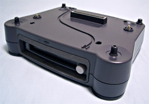 The 64DD sans main console.